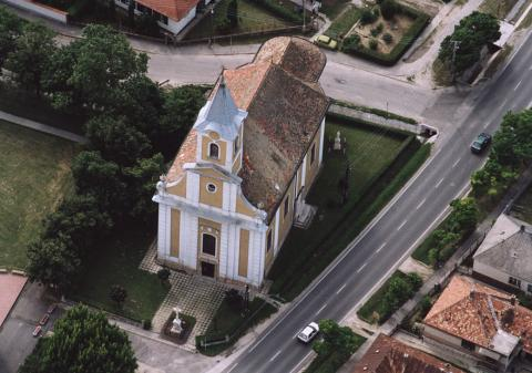 Nyúl Hungary aerialphotography, Mindenszentek római katolikus templom This is a photo of a monument in Hungary, Identifier: 4627